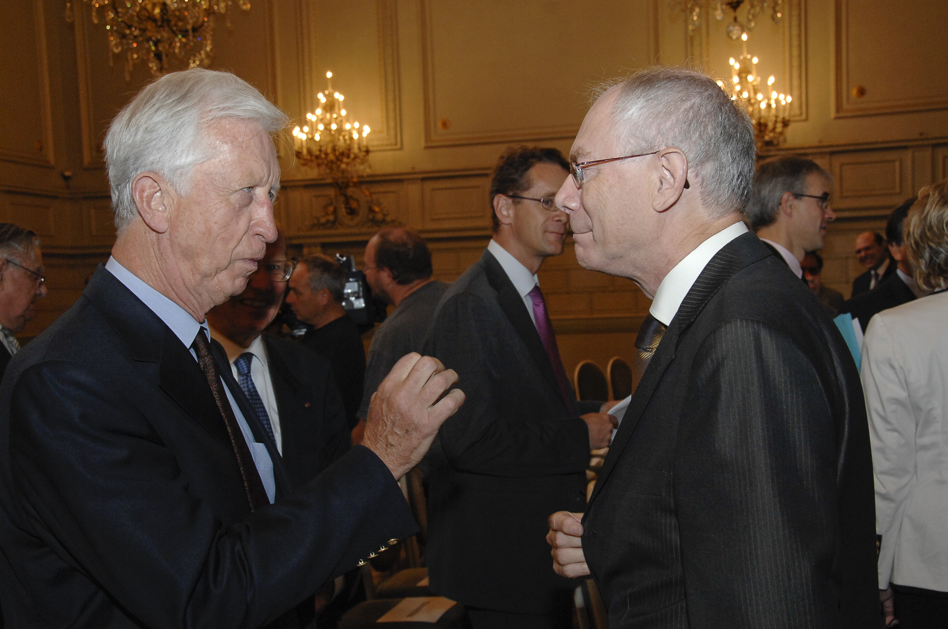 "I Struggle, I Overcome" - book launch